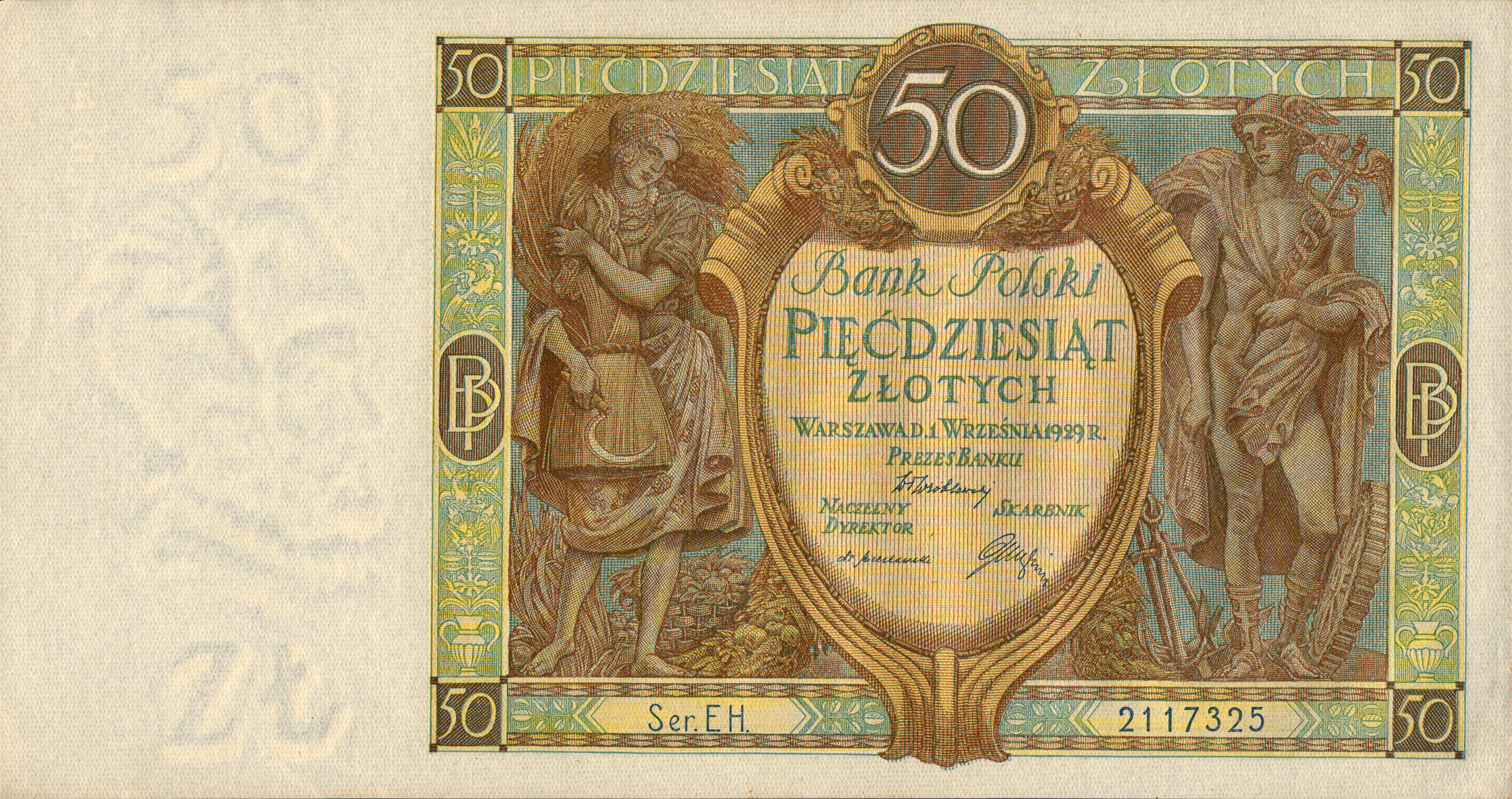 Polish 50 złoty banknote